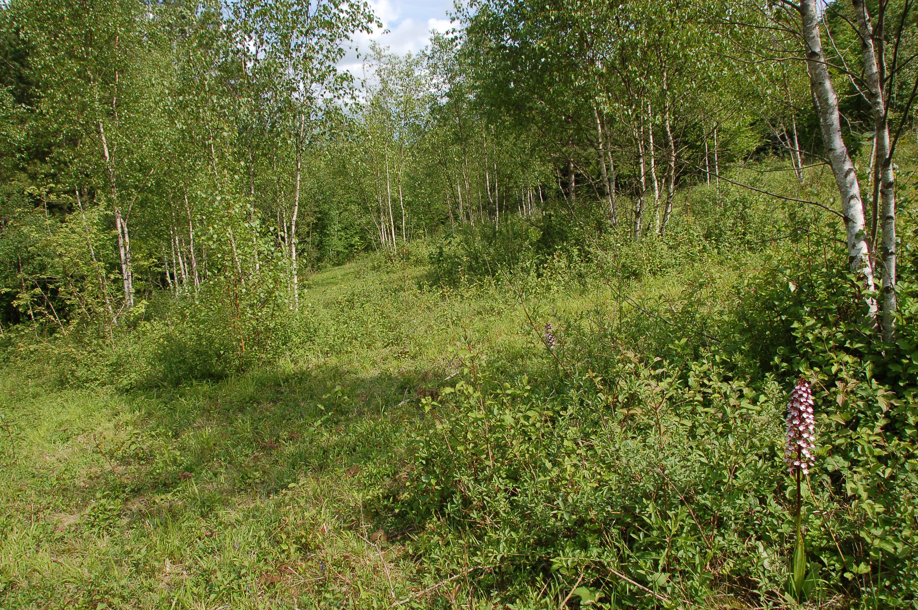 Description: Bonsai Bank, Denge Wood, , Source: Self made, Date:20th May 2007. This image is relevant to the articles on Denge Wood and the North Downs.